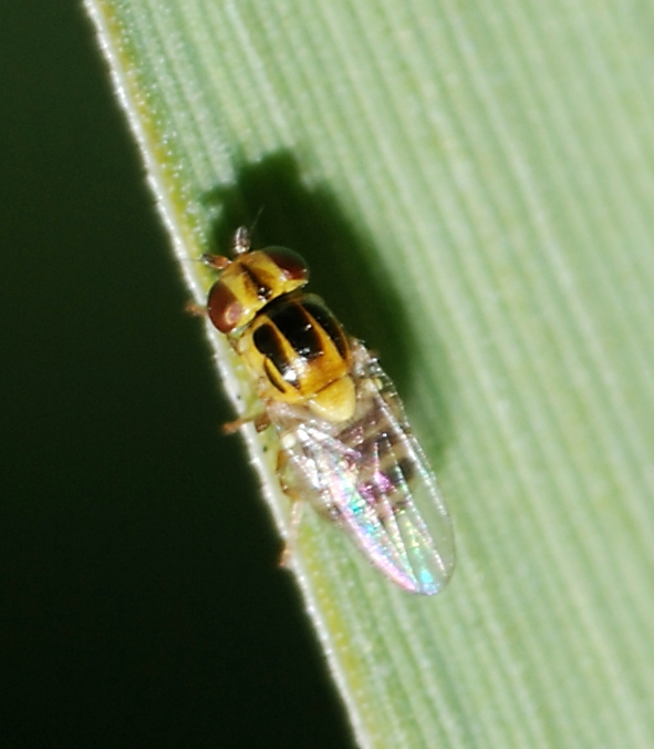 A small fly of the family Chloropidae (Thaumatomyia notata)